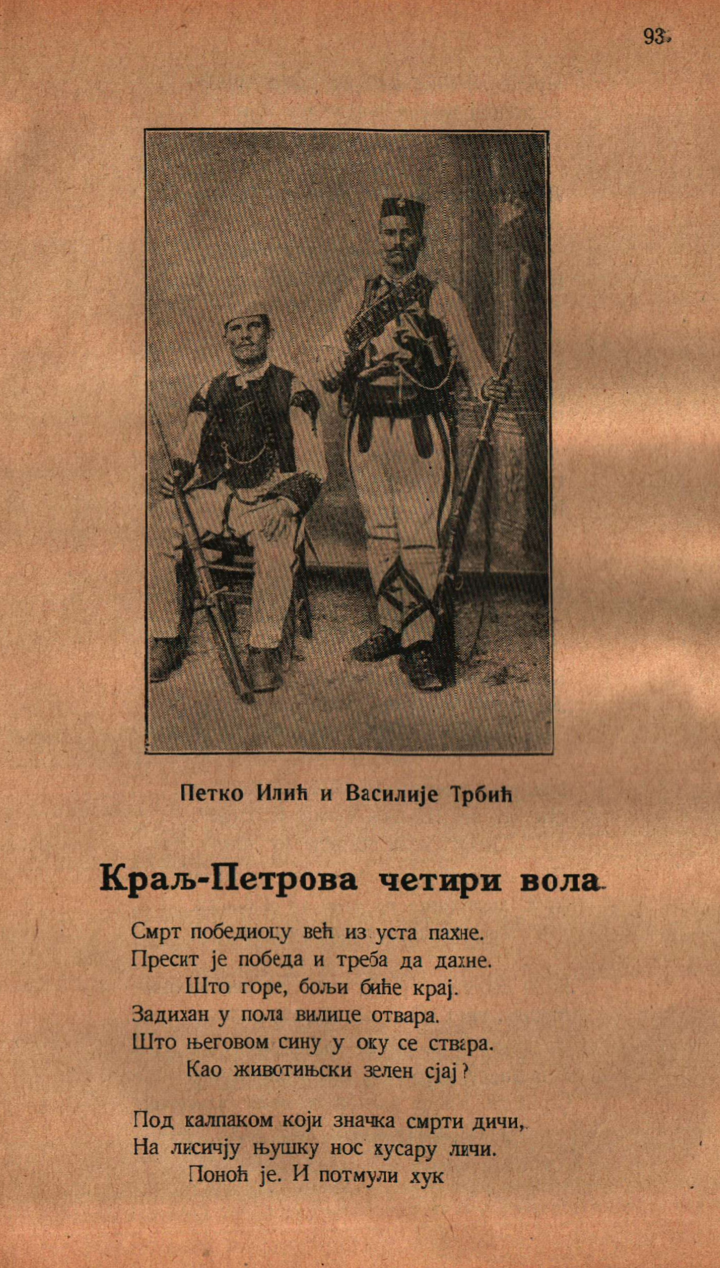 Voyvoda Vuk Popovich. 1927 calendar.